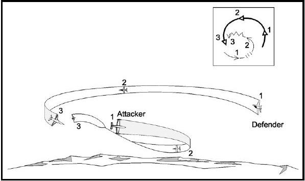 The low Yo-Yo is an out-of-plane maneuver. Source: United States Navy - Naval Air Training Command (NAS Corpus Christi, Texas) Flight training instruction manual. (Rev. 08-06 CNATRAP-821) 2006